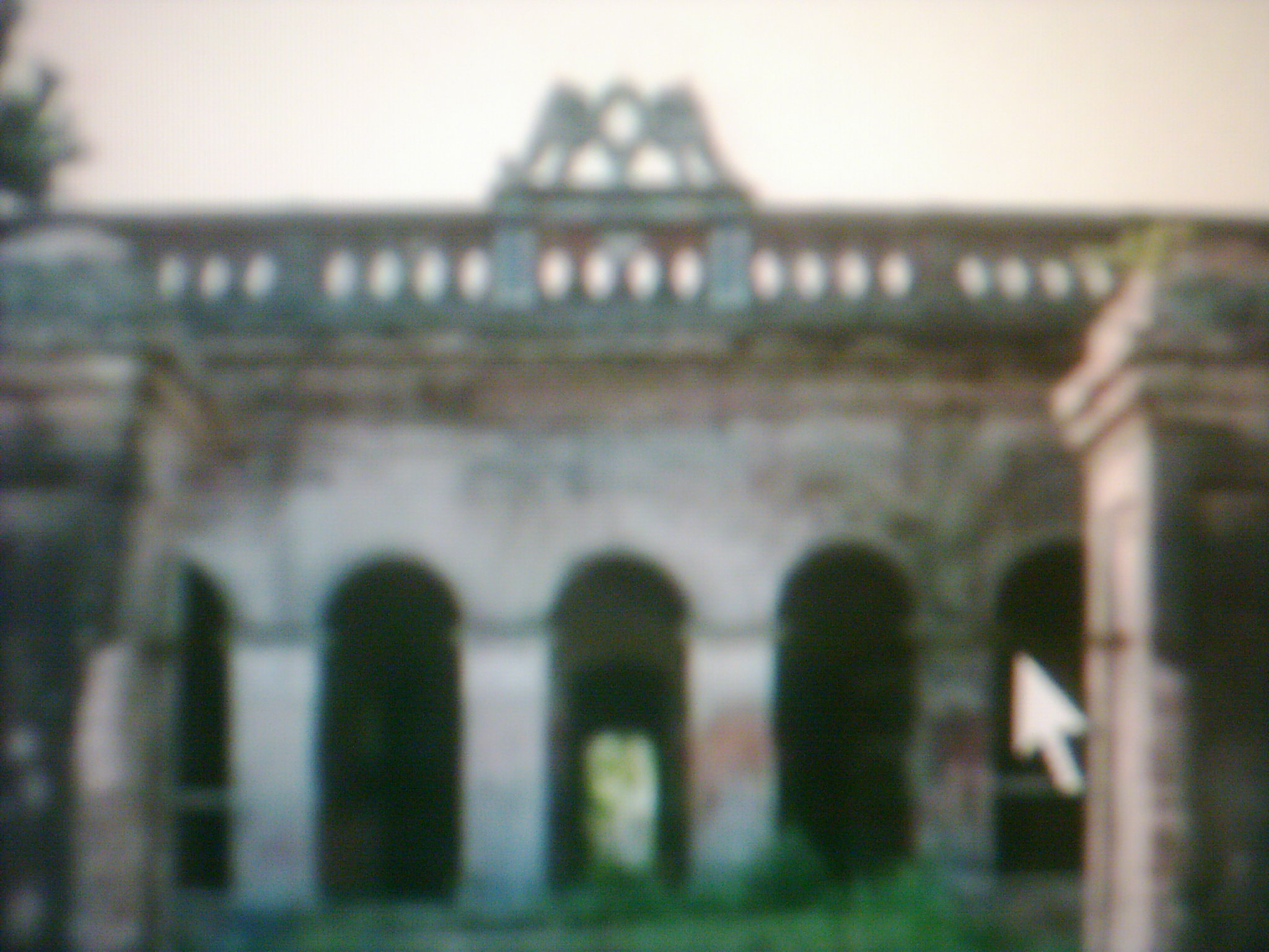 বৈঠকখানার বাহিরের দিক